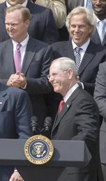 John K. Mara, Esq (back left), Tom Coughlin (foreground) & Steve Tisch (back right) at the Giants' visit to the White House on April 30, 2008, after their Super Bowl XLII victory.